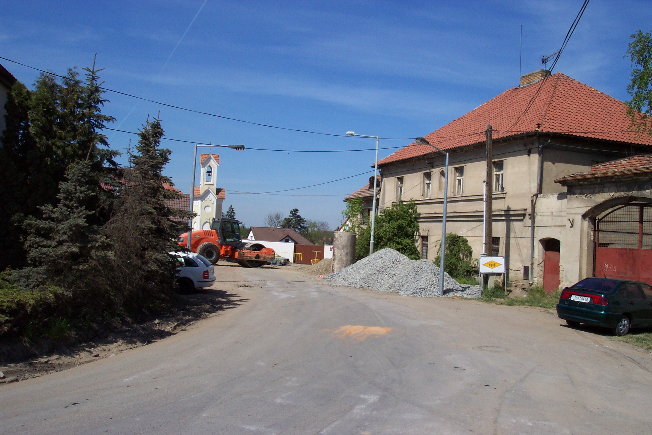 Prague, Sobín, the Hostivická street